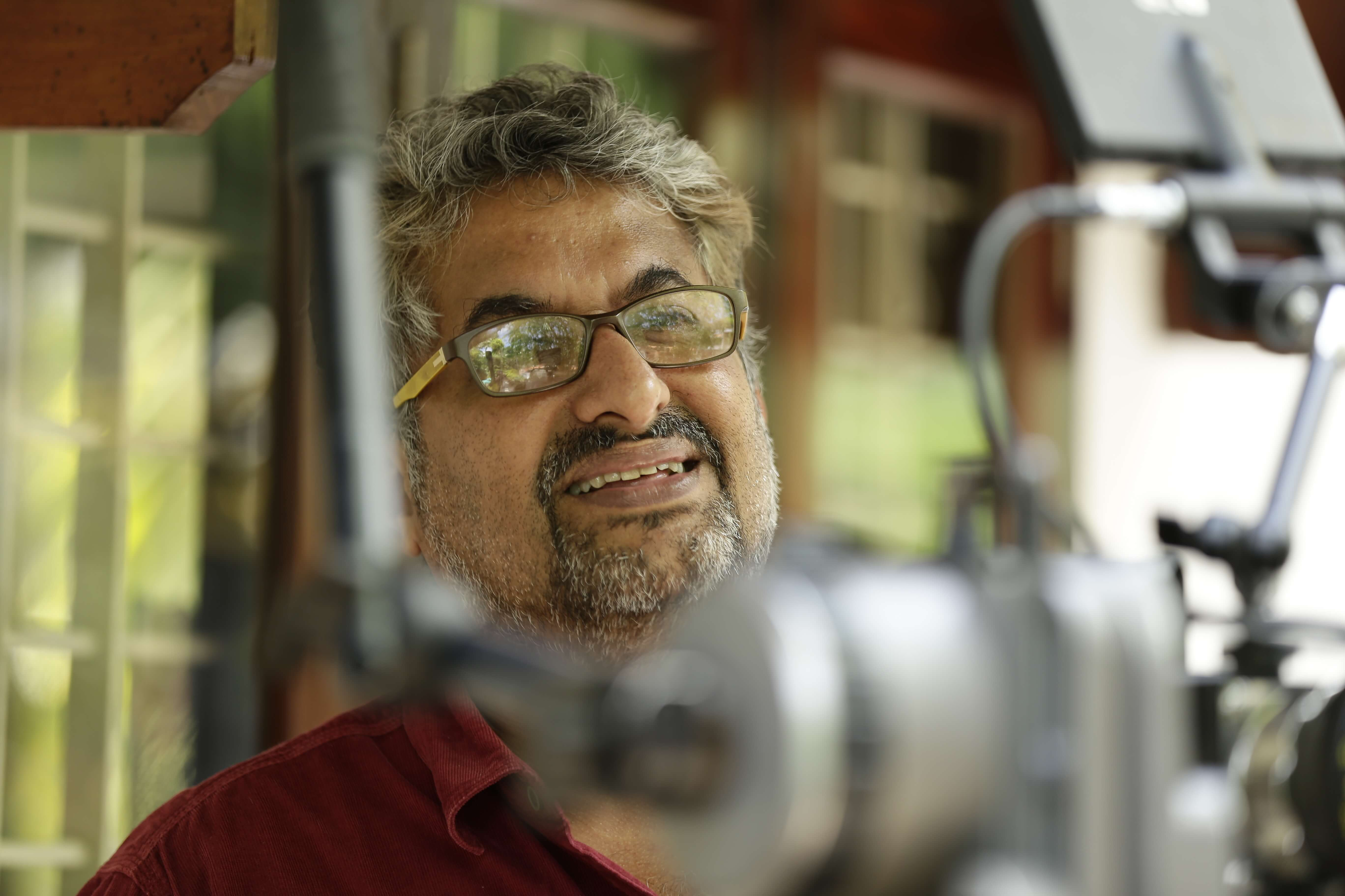 Shyamaprasad during the making of his latest feature A Sunday